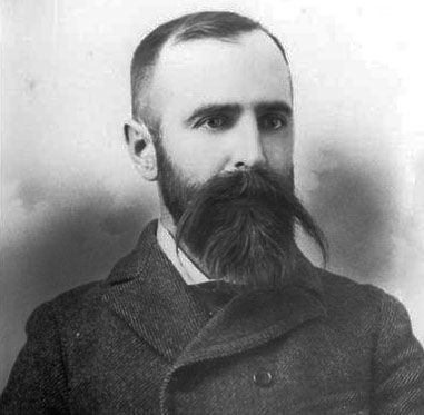 Dr. Herbert Charles Wilson, 2nd mayor of Edmonton, Alberta.